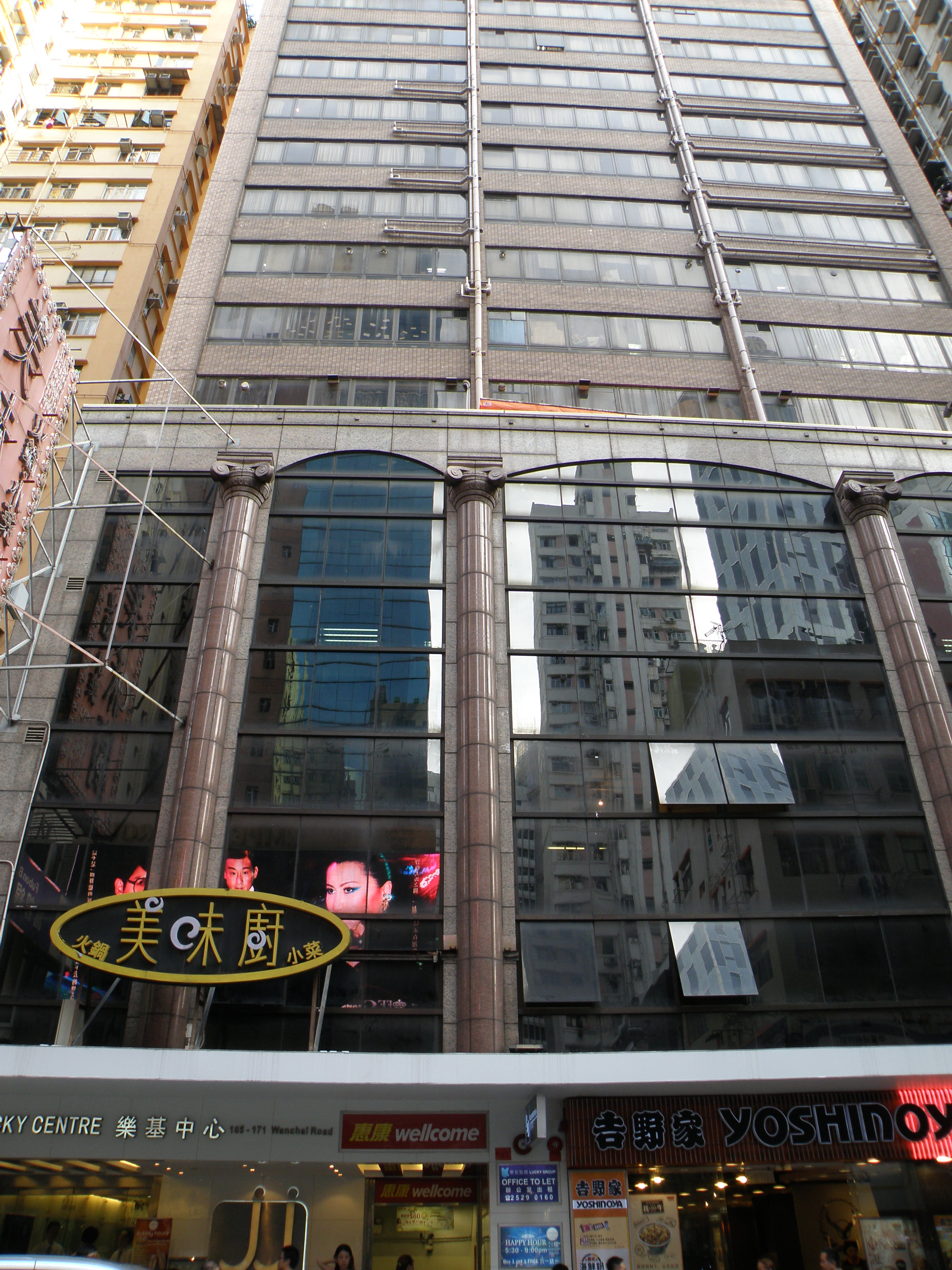 JJ Hotel in Wan Chai, Hong Kong.